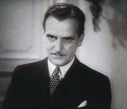 Ralph Morgan in The Kennel Murder Case - trailer (cropped screenshot)